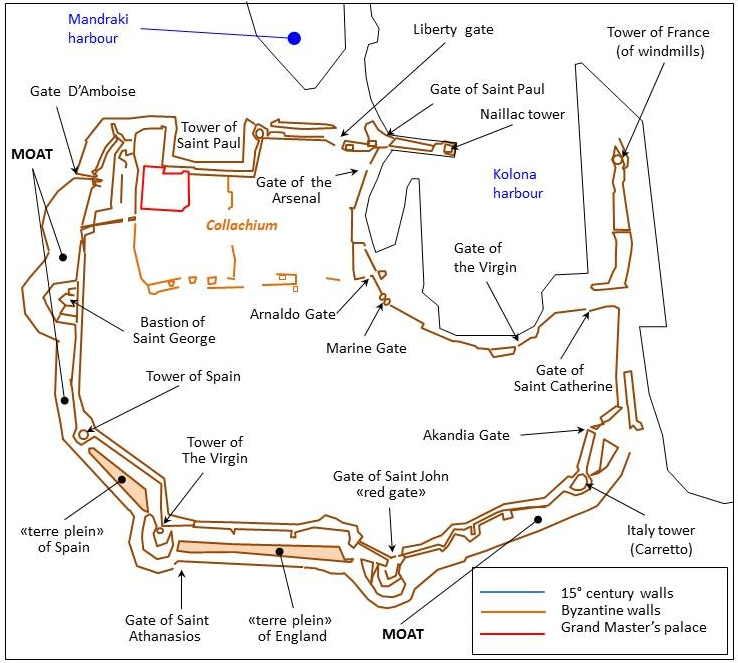 Rhodes-sketch of fortifications